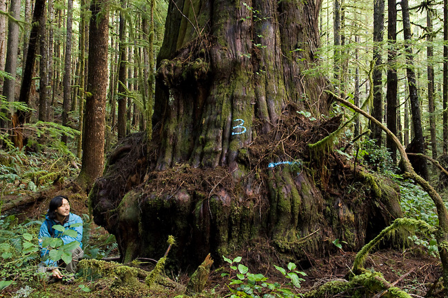 One of the most massive and gnarly old-growth redcedars in the Avatar Grove near Port Renfrew, BC is painted for falling.